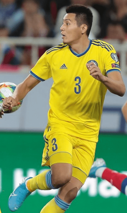 Temirlan Yerlanov against Russian National Team